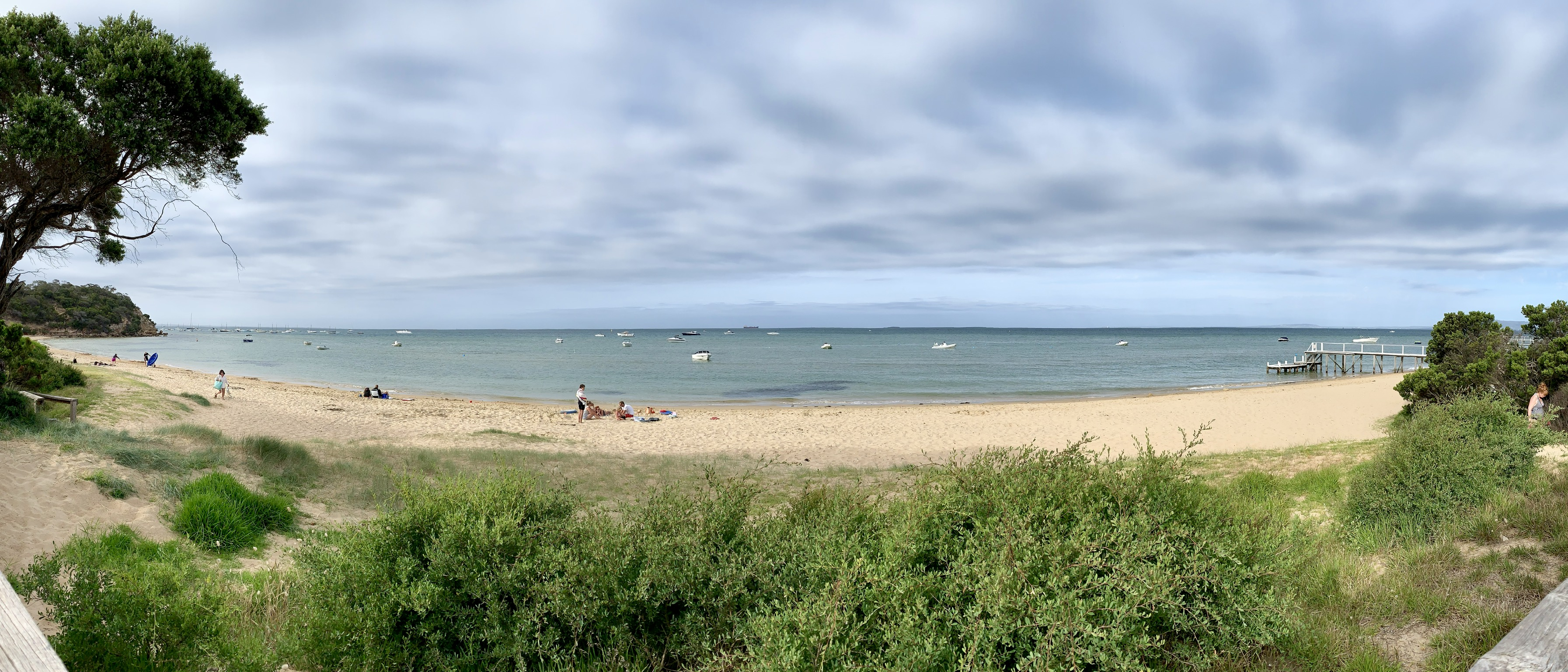 Sullivan Bay, first British settlement in Victoria